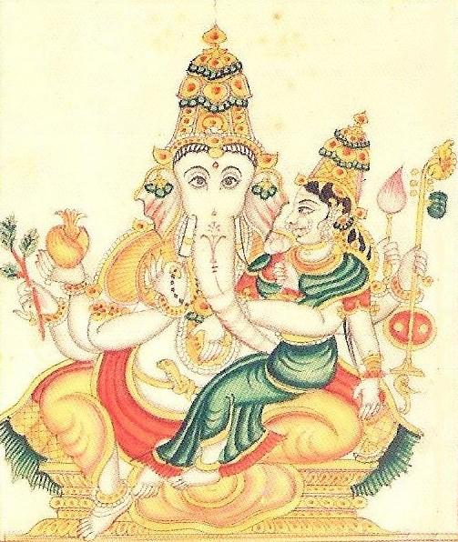 Depiction of the Uchchhishta Ganapati form of Ganesha Upper area shows a description of the form as a meditation verse written in Kannada script. Reproduction from the Sritattvanidhi ("The Illustrious Treasure of Realities"), an iconographic treatise compiled in the 19th century in Karnataka, India, by order of the then Maharaja of Mysore, Krishnaraja Wodeyar III (b. 1794 - d. 1868).